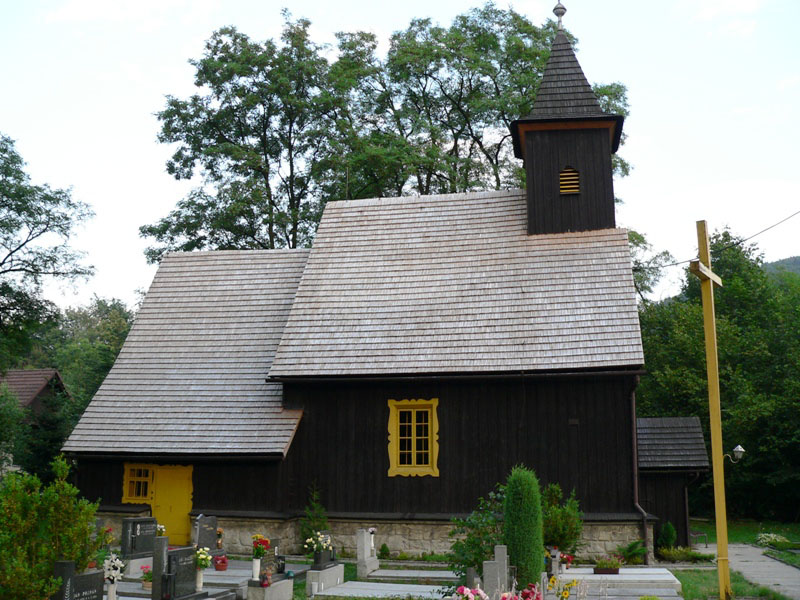 Description: Saint Nicholas Church in Nýdek (Nydek), Czech Republic. Date: 24 July, 2006 Camera: Panasonic DMC-FZ20 Author: Czesil